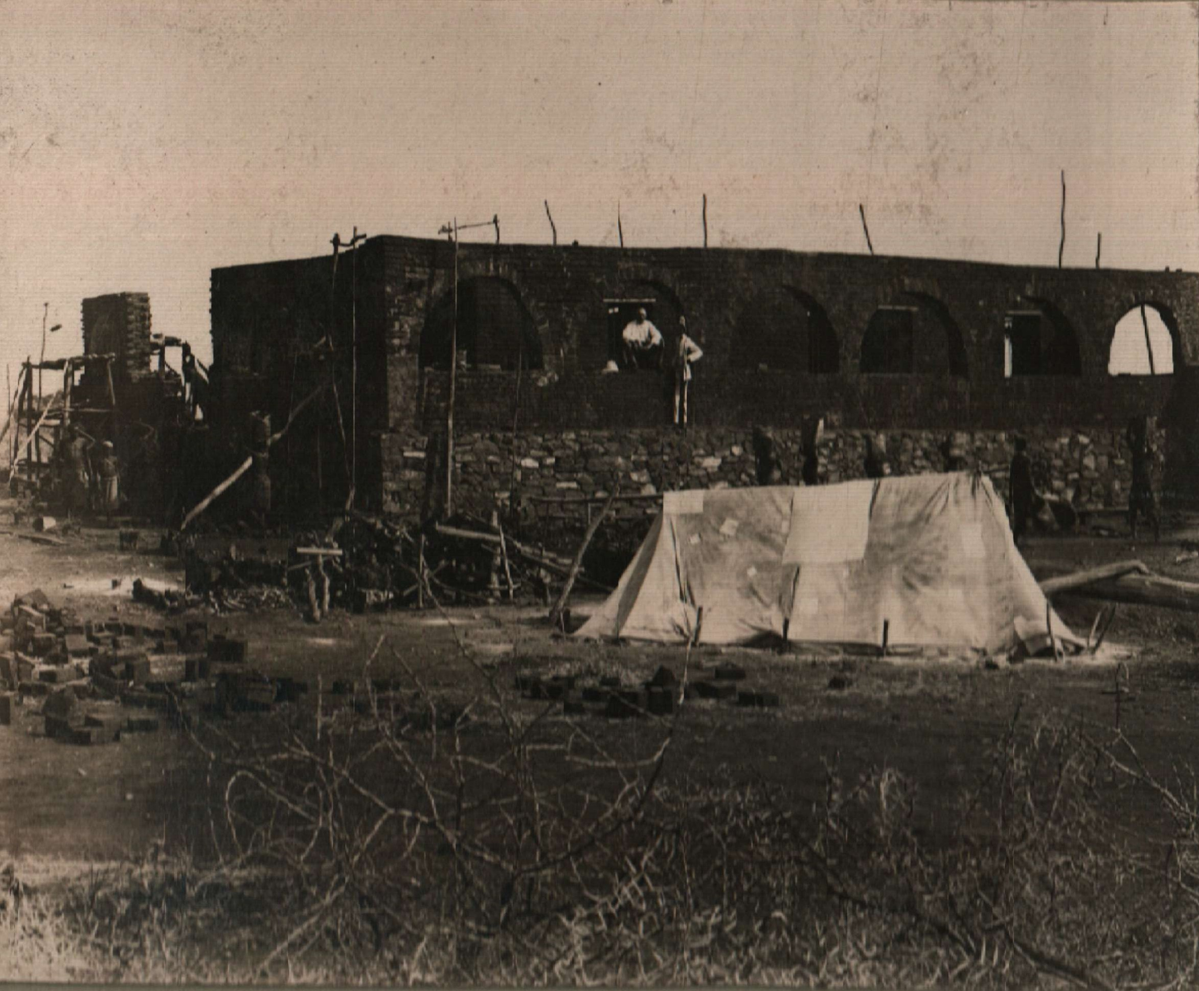 Photos of Africa (1909-1913). Austrian building construction, Mkalama, Tanzania